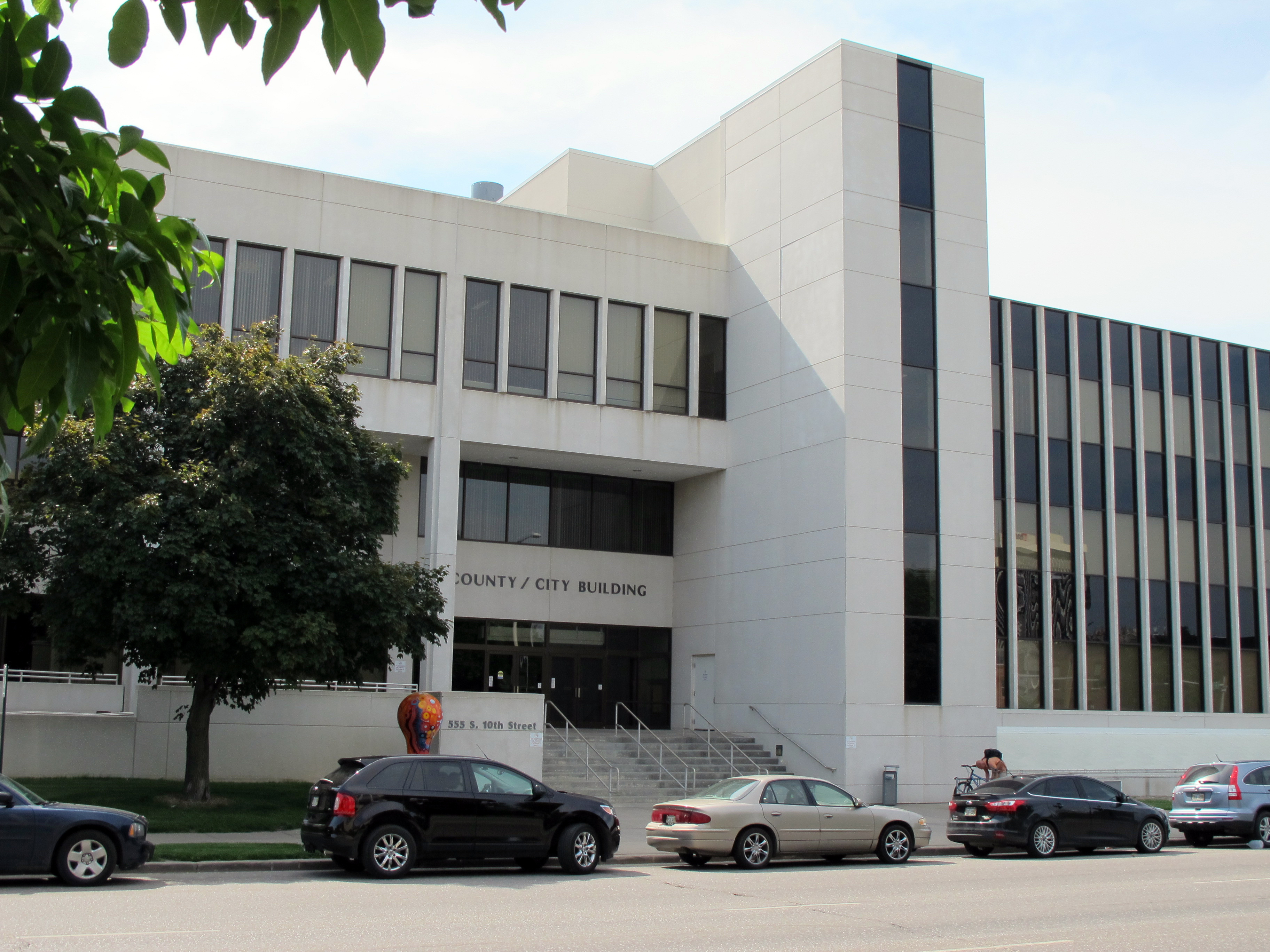 Photo of the (new) County-City Building, 555 S.10th Street in Lincoln, Nebraska. Photo is taken from the east side of S. 10th Street, looking west-northwest at the main entrance (east side) of the building.